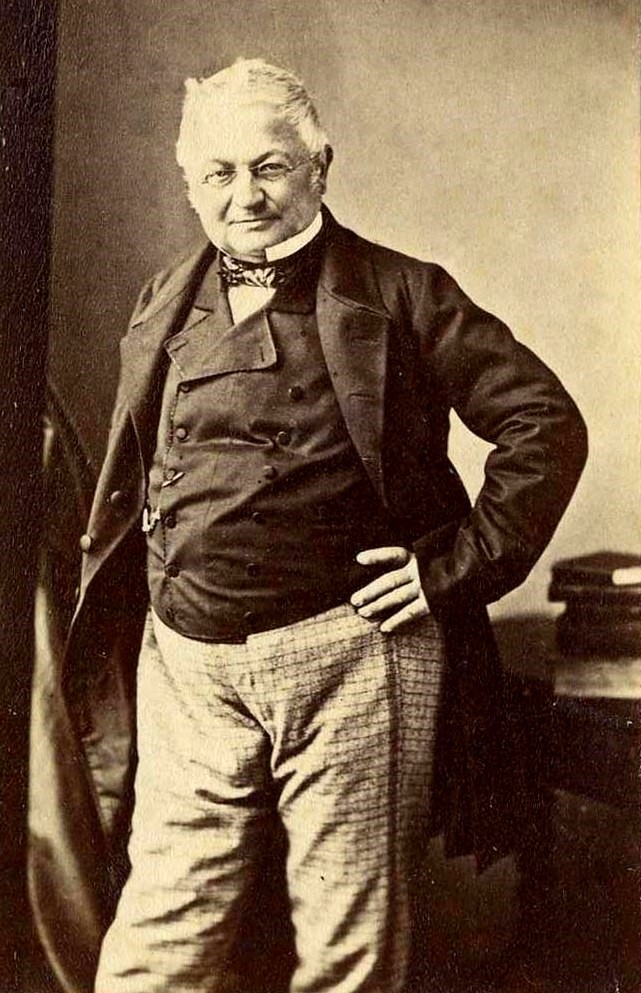 Three-quarter CDV portrait of Louis Adolphe Thiers